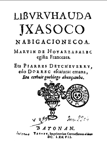 Cover of the book "Liburu hau da Ixasoco nabigacionecoa", 1677